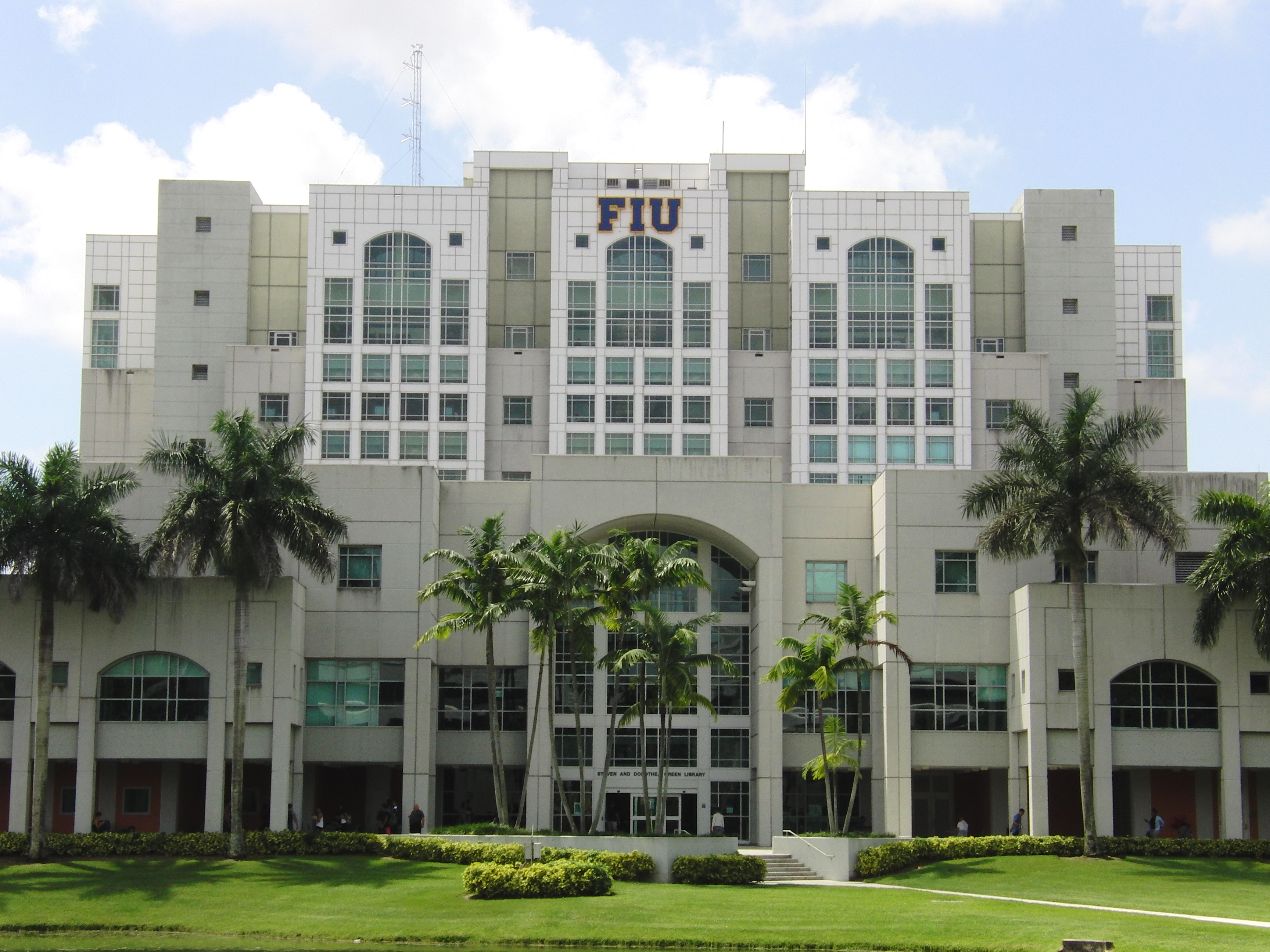 FIU Green Library South Entrance